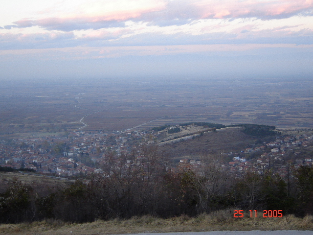 View from village Brestovitsa, Bulgaria